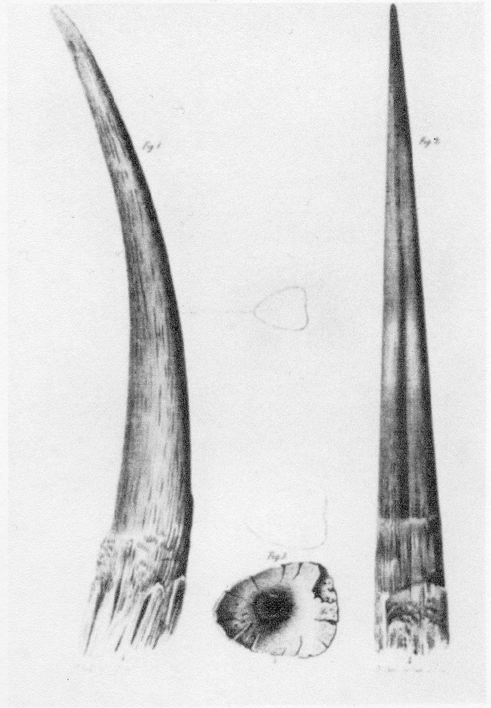 Fossil horns of the woolly rhino from Jakutia